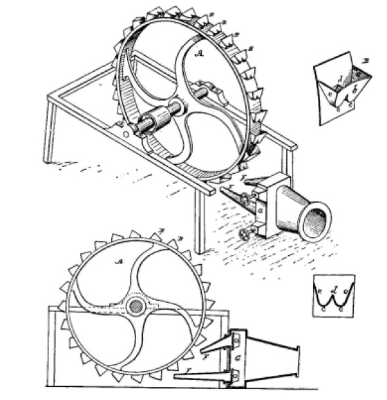 Drawing of an early Pelton wheel (also known as Pelton turbine), invented by Lester Allan Pelton in the 1870s.